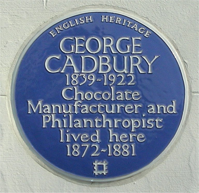 Blue plaque to George Cadbury at 32 George Road, Edgbaston, Birmingham, England. Photographed by me 7 April 2007. Oosoom